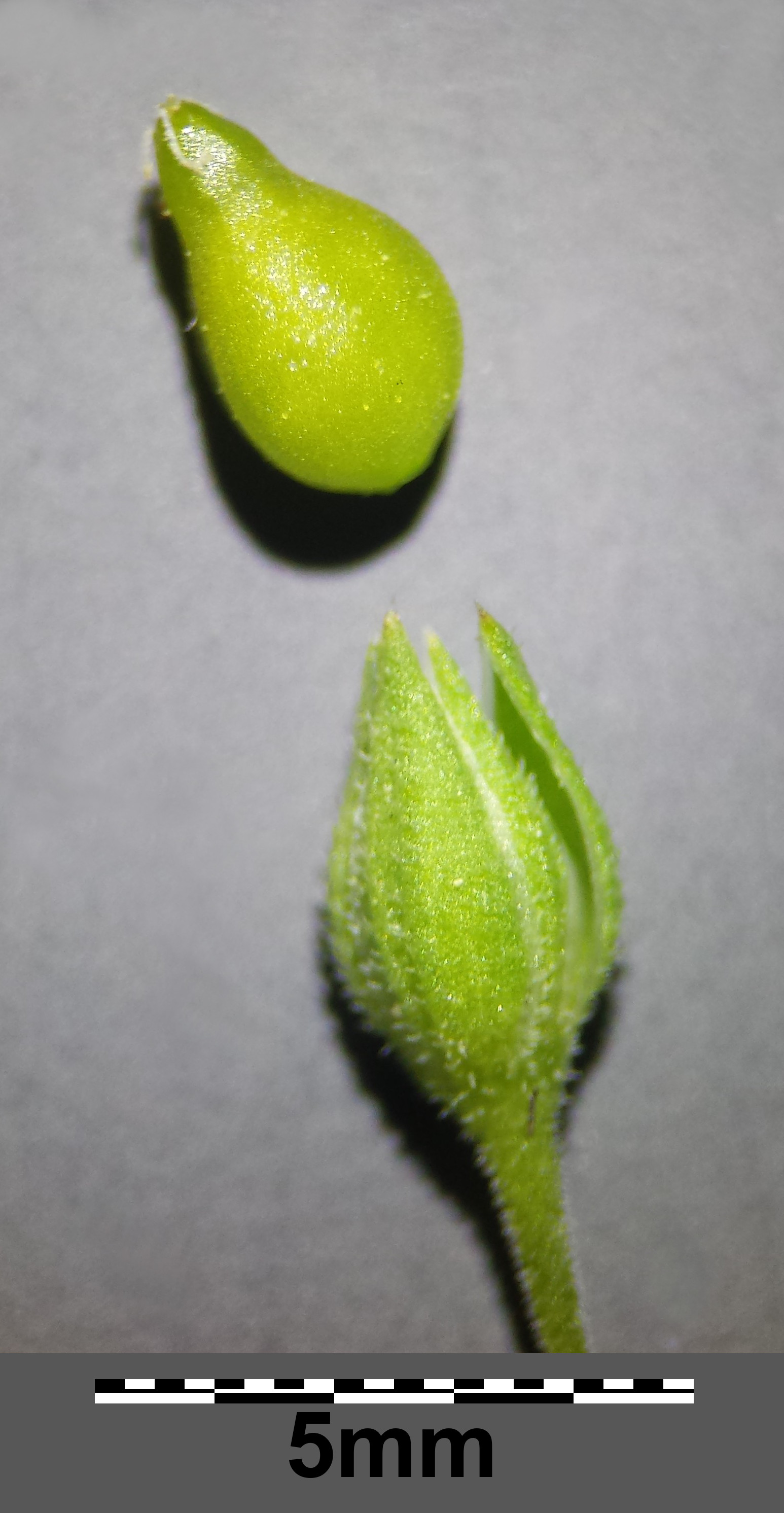 Fruit Taxonym: Arenaria serpyllifolia ss Fischer et al. EfÖLS 2008 ISBN 978-3-85474-187-9 Location: Neue Donau, Vienna-Floridsdorf - ca. 160 m a.s.l. Habitat: dry slope